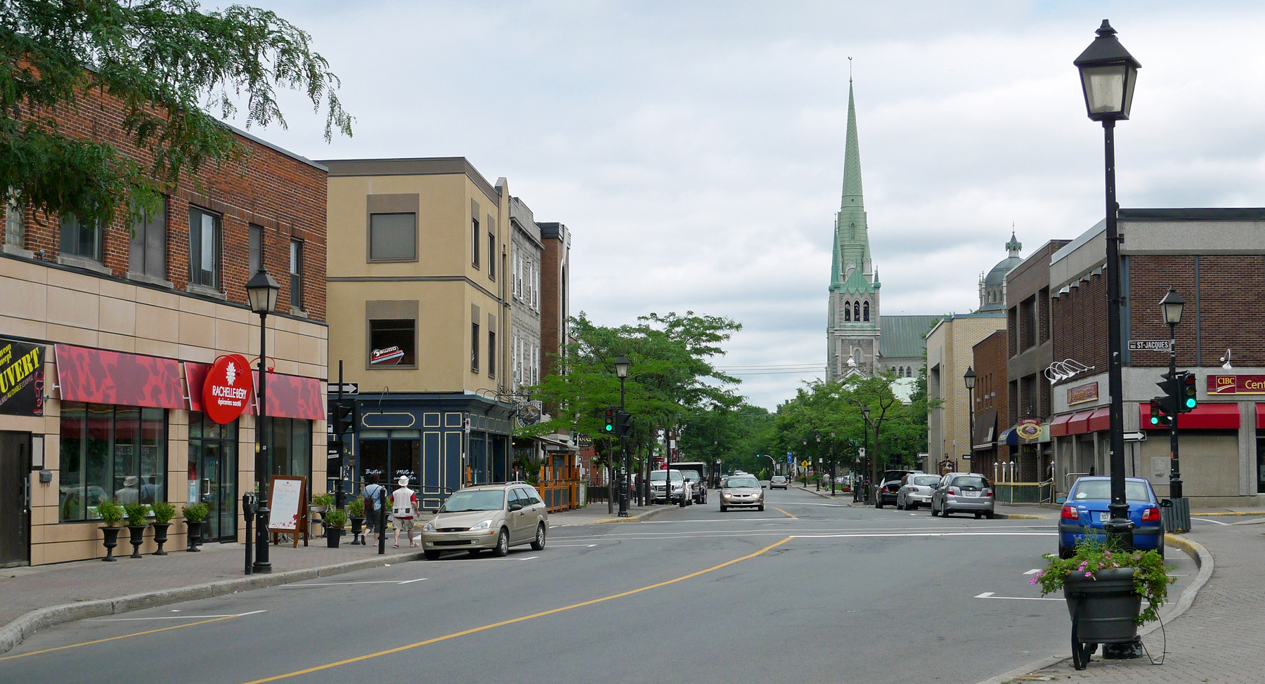 Rue Saint Charles in Vieux-Longueuil, Quebec. This is the traditional commercial street, or "high street" for the village of Longueuil (later "Vieux-Longueuil," or "Old Longueuil" in English). This view is looking north-east from the merge of rue de Longueuil and rue St-Charles.